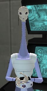 A female kaminoan, a fictional species from the Star Wars franchise. The picture is photographed in Second Life.